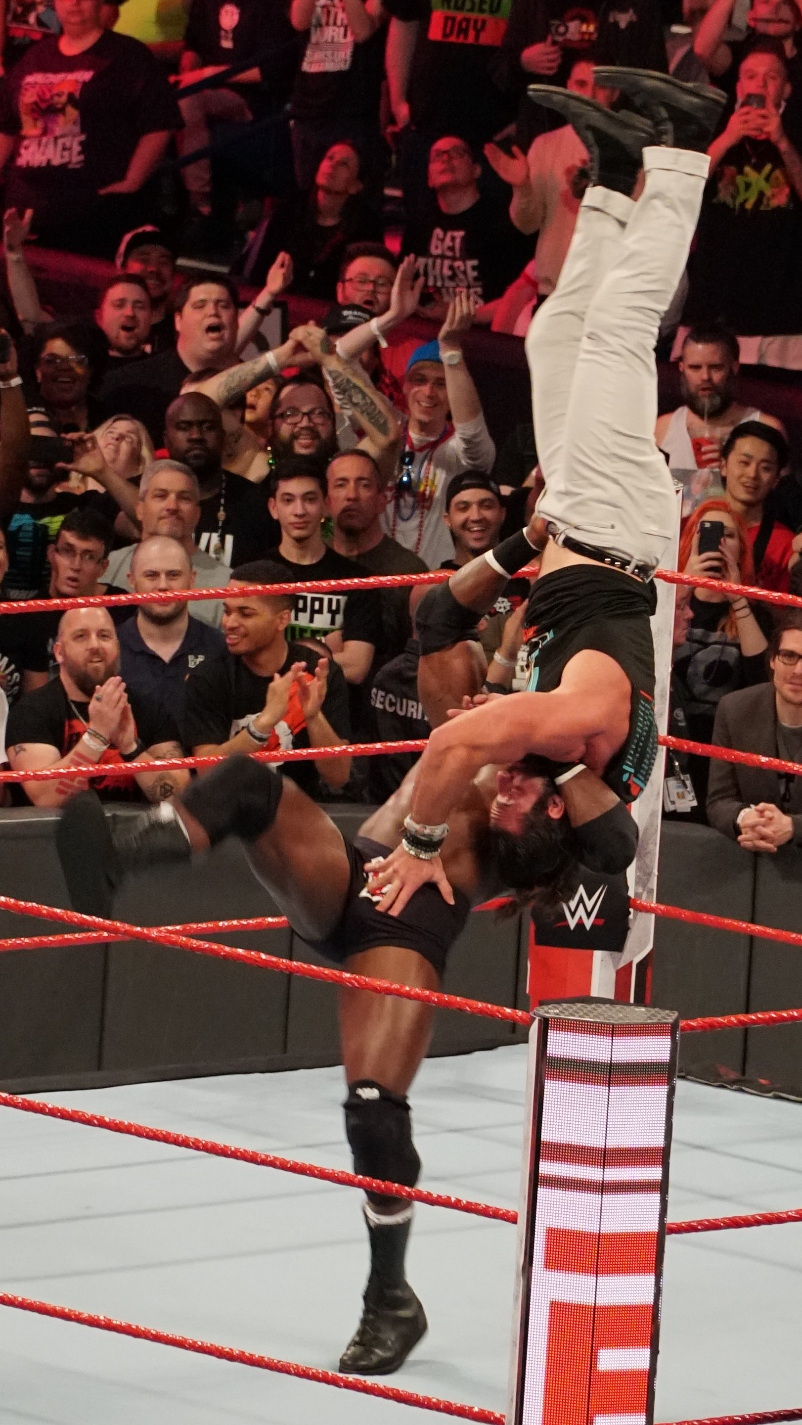 Lashley performing a delayed vertical suplex on Elias.